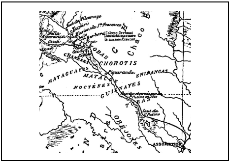 Map to follow Arthur Thouar's journey in search of the remains of Doctor Jules Crévaux